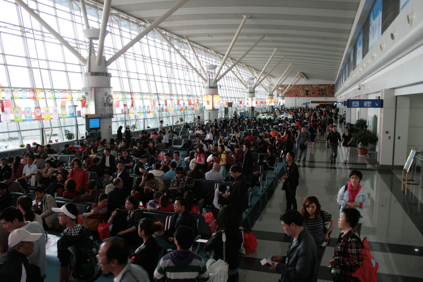 Departure Hall of Gonggar Airport